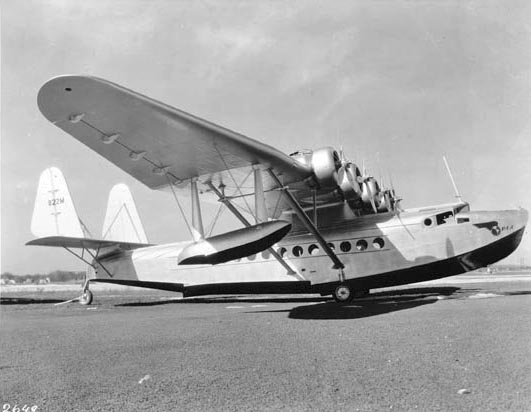 Sikorsky S-42, aircraft registration NC-822M, "Brazilian Clipper", Pan American Airways